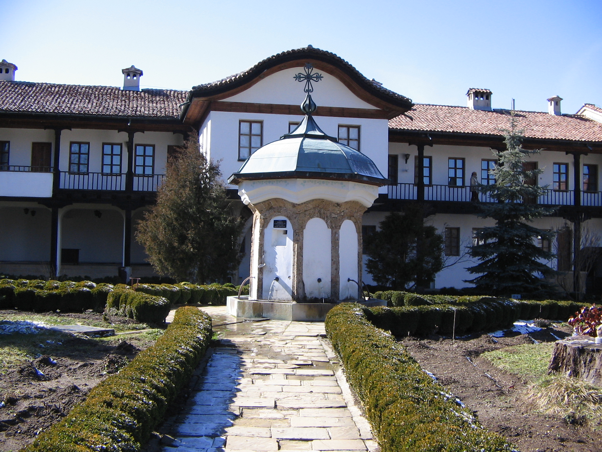 The tap in the churchyard of Sokolsky monastery, Bulgaria.